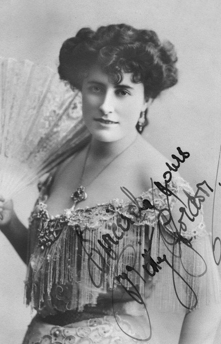 Kitty Gordon